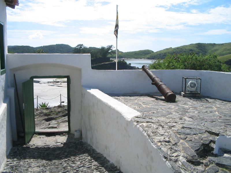 Entrance to Sao Mateus Fort in Cabo Frio, Brazil